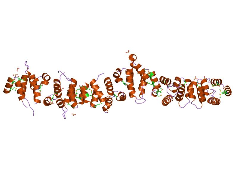 Cartoon representation of the molecular structure of protein registered with 1wmg code.